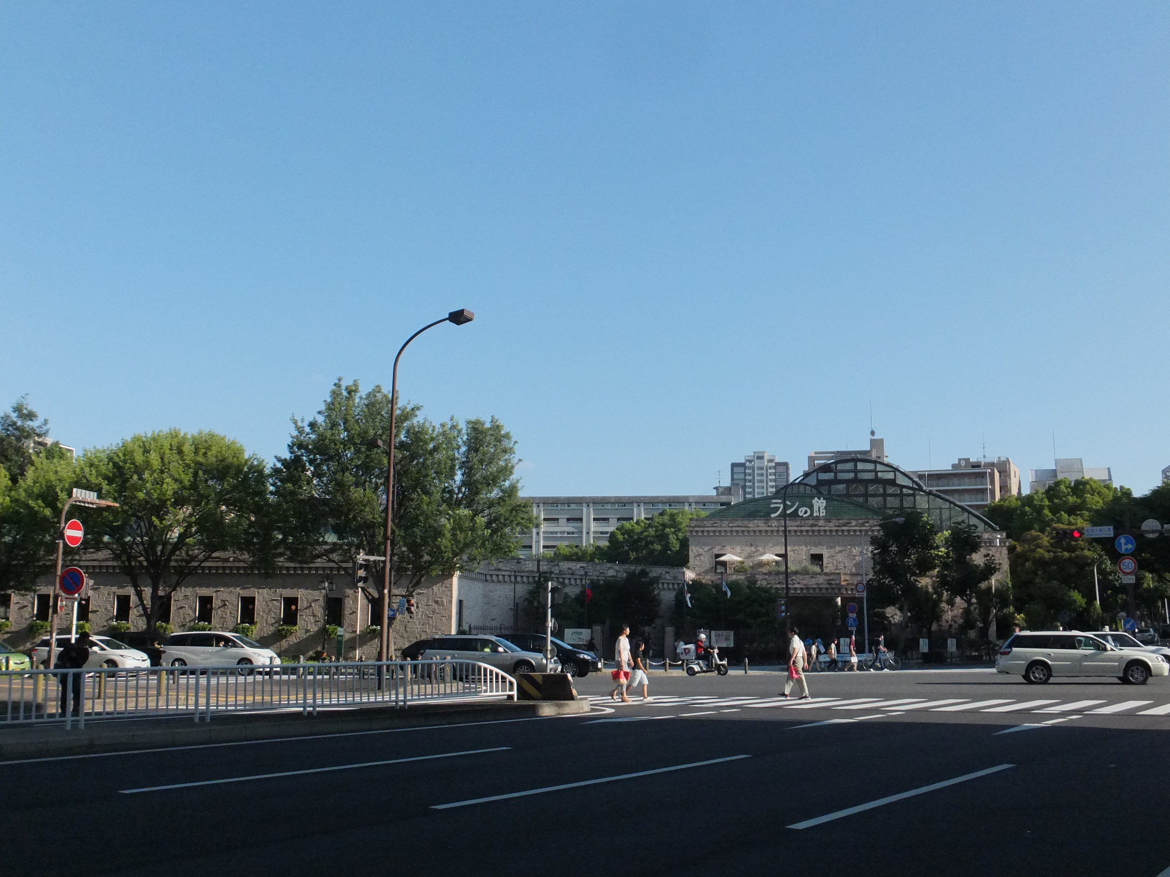 Ran no Yakata (ランの館 Orchid Chateau), located at 4-4-1,, Naka-ku, Nagoya, Aichi, Japan